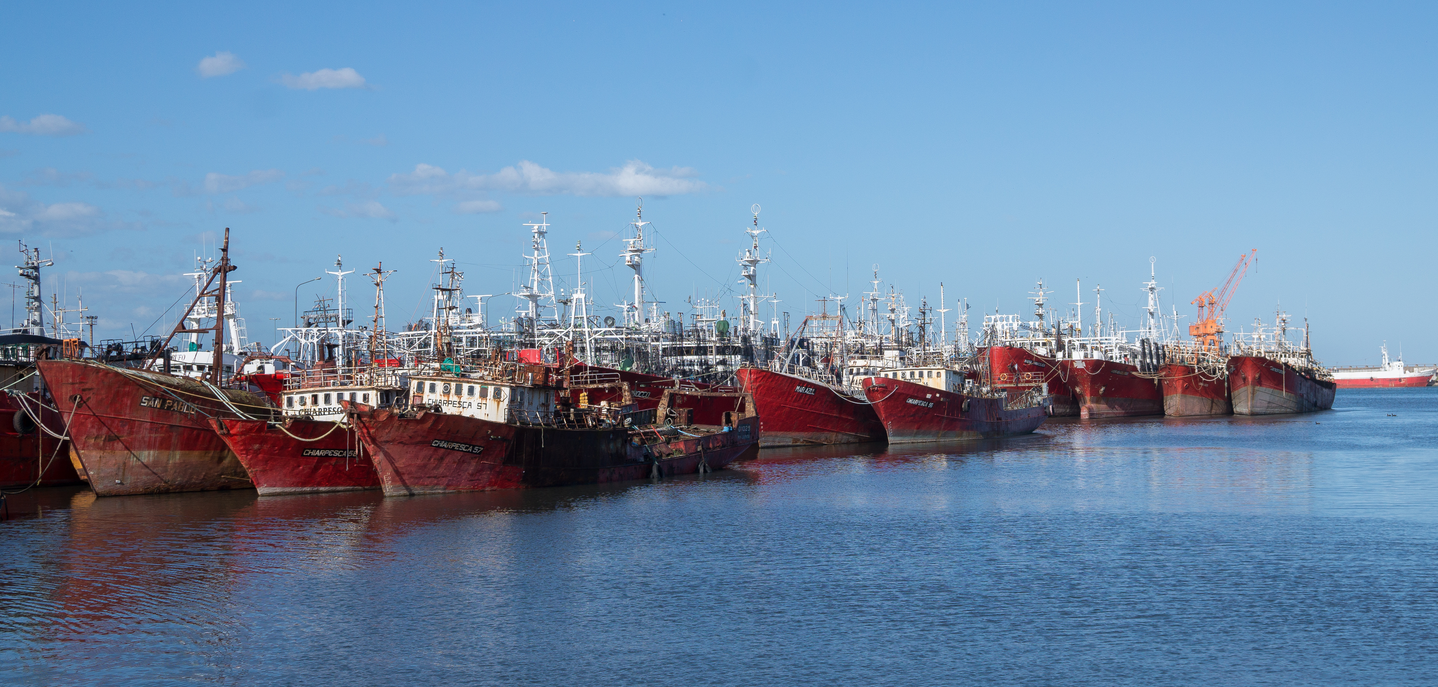 Fishing vessels in dock of fishing, port of Mar del Plata, Argentina